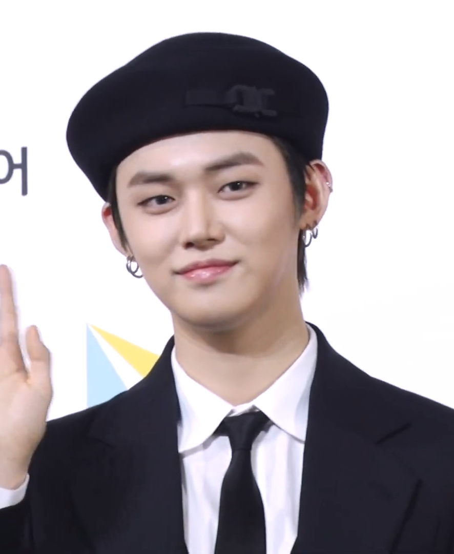 Choi Yeon-jun at Soribada Awards on August 23, 2019.